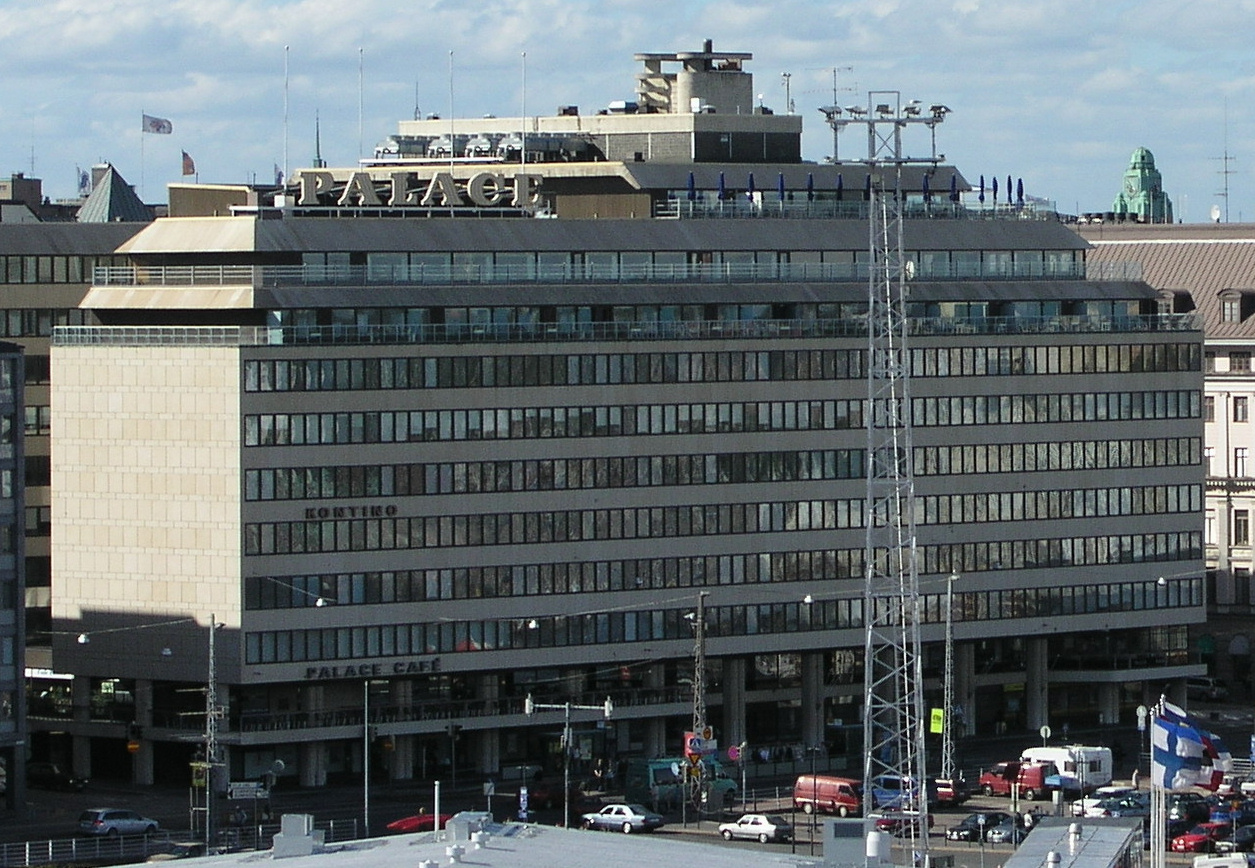 Palace Hotel in Helsinki, Finland